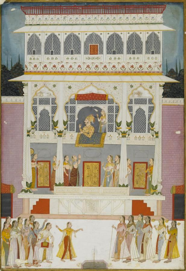 Maharaja Bakhat Singh at the Jharokha window of the Bakhat Singh Mahal, detail. Attributed here to 'Artist 2', Nagaur, 1737 (Samvat 1794); 62.9 x 43.8 cm. Mehrangarh Museum Trust